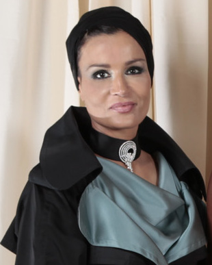 President Barack Obama and First Lady Michelle Obama pose for a photo during a reception at the Metropolitan Museum in New York with Hamad Bin Khalifa Al-Thani and his second wife, Sheikha Mozah bint Nasser Al Missned.